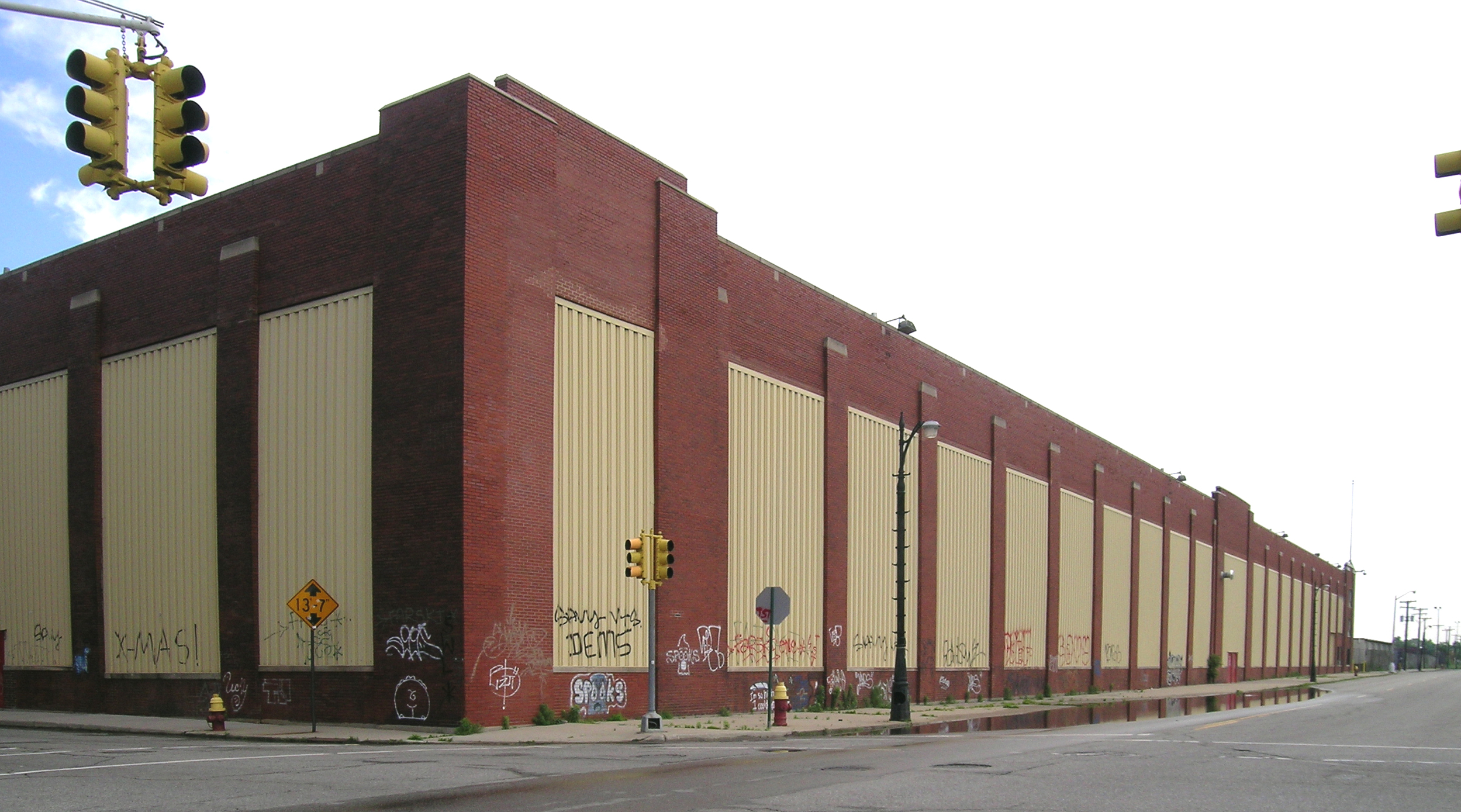 Fisher Body Plant 23, on Piquette Avenue, Detroit, Michigan, United States.